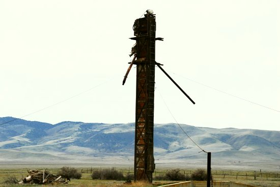 Part of antique machinery display outside Goodwin Center between Painted Rock and Soda Lake on the Carrizo Plain.